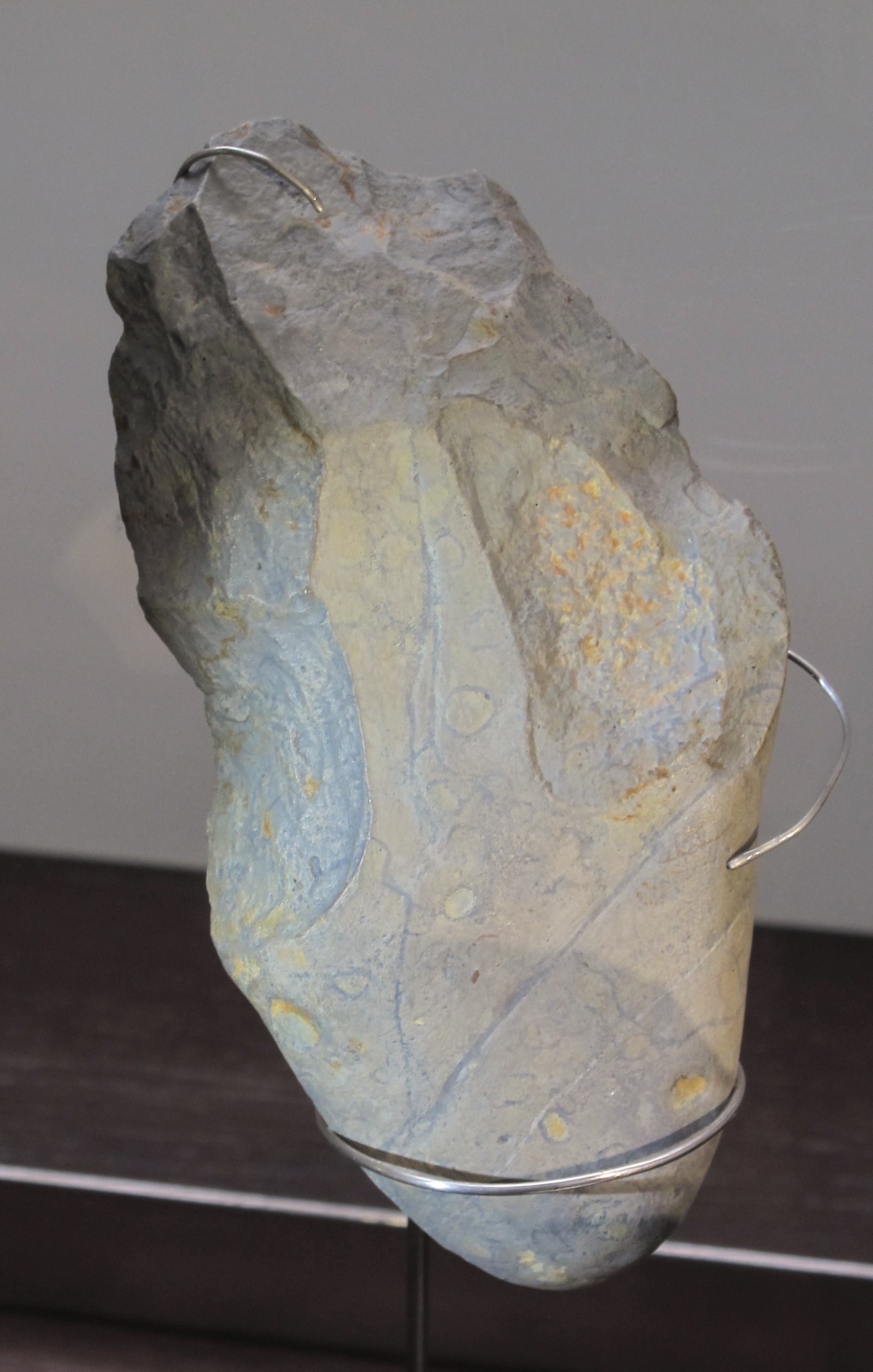 Stone hand axe. Seokjangni. Korea. Lower Paleolithic. Replica : Molding EPCC Tautavel. Original from the collection of Seokjangni. Exposition 2016 : La Corée des origines au Musée de l'Homme, Paris.